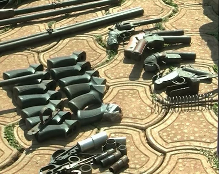 Weapons seized from separatist fighters in Bamenda, north western Cameroon, Feb. 6, 2019